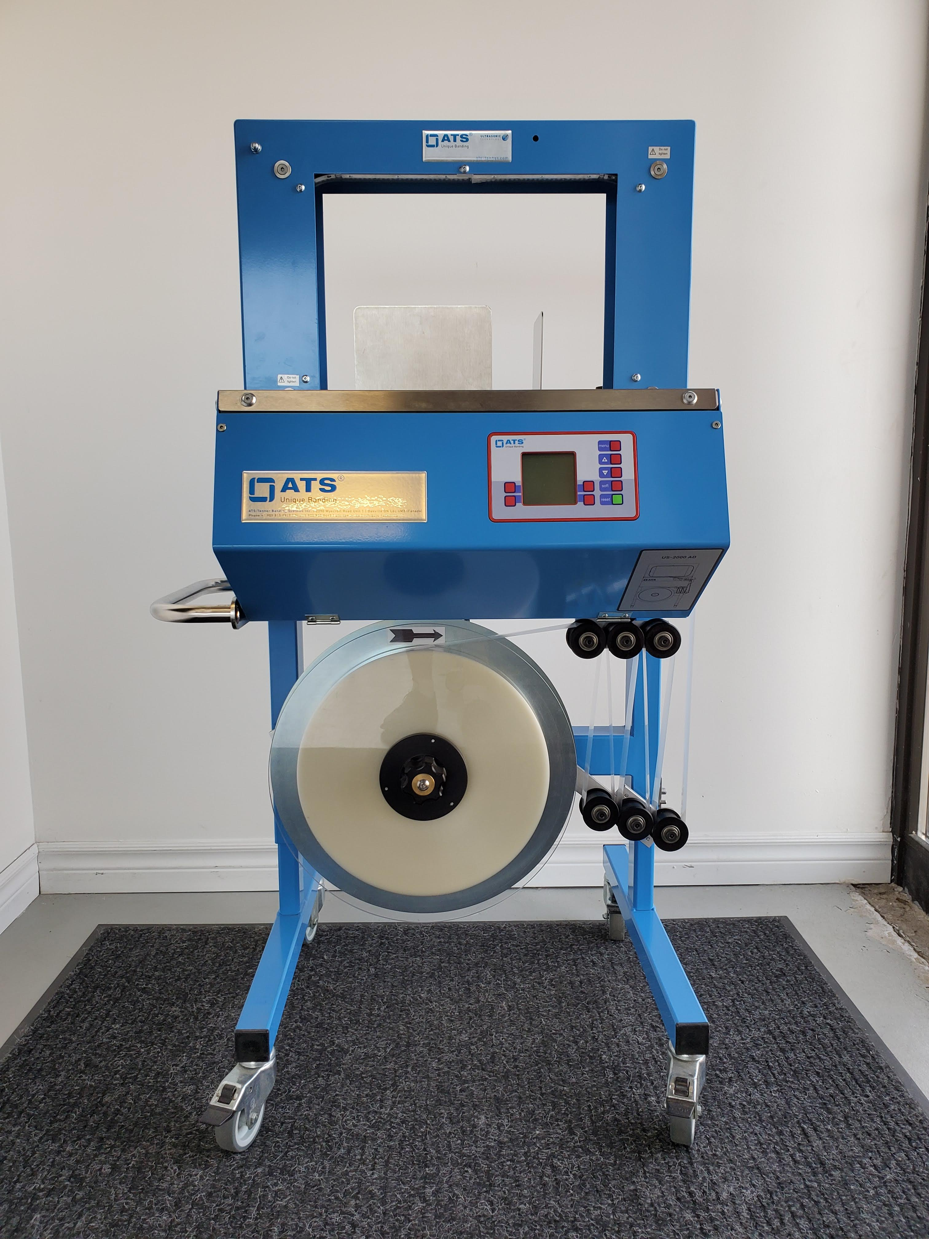 An ATS US-2000 Ultra-Sonic banding machine used in the packaging industry as an alternative to strapping.